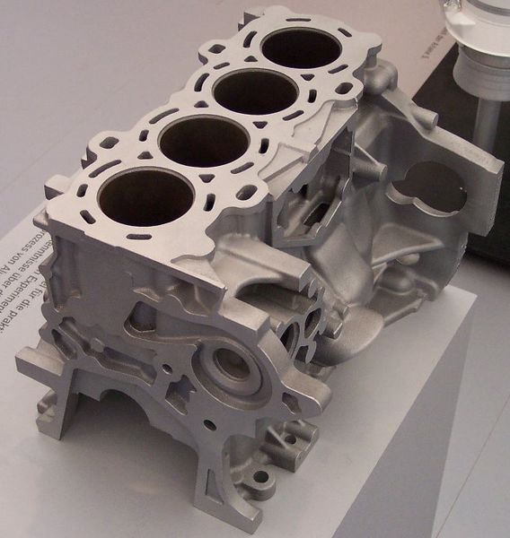 4-cylinder engine block made of aluminum